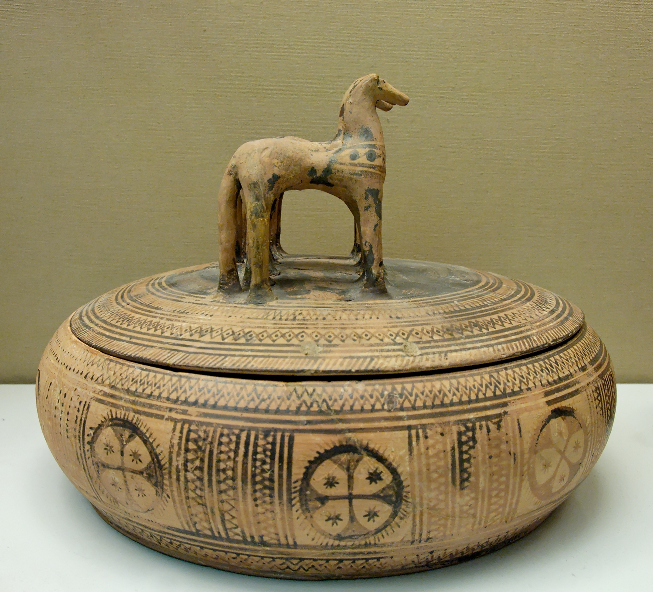 Geometric pyxis with four horses standing on the lid, Late Geometric Ib. Made in Athens.